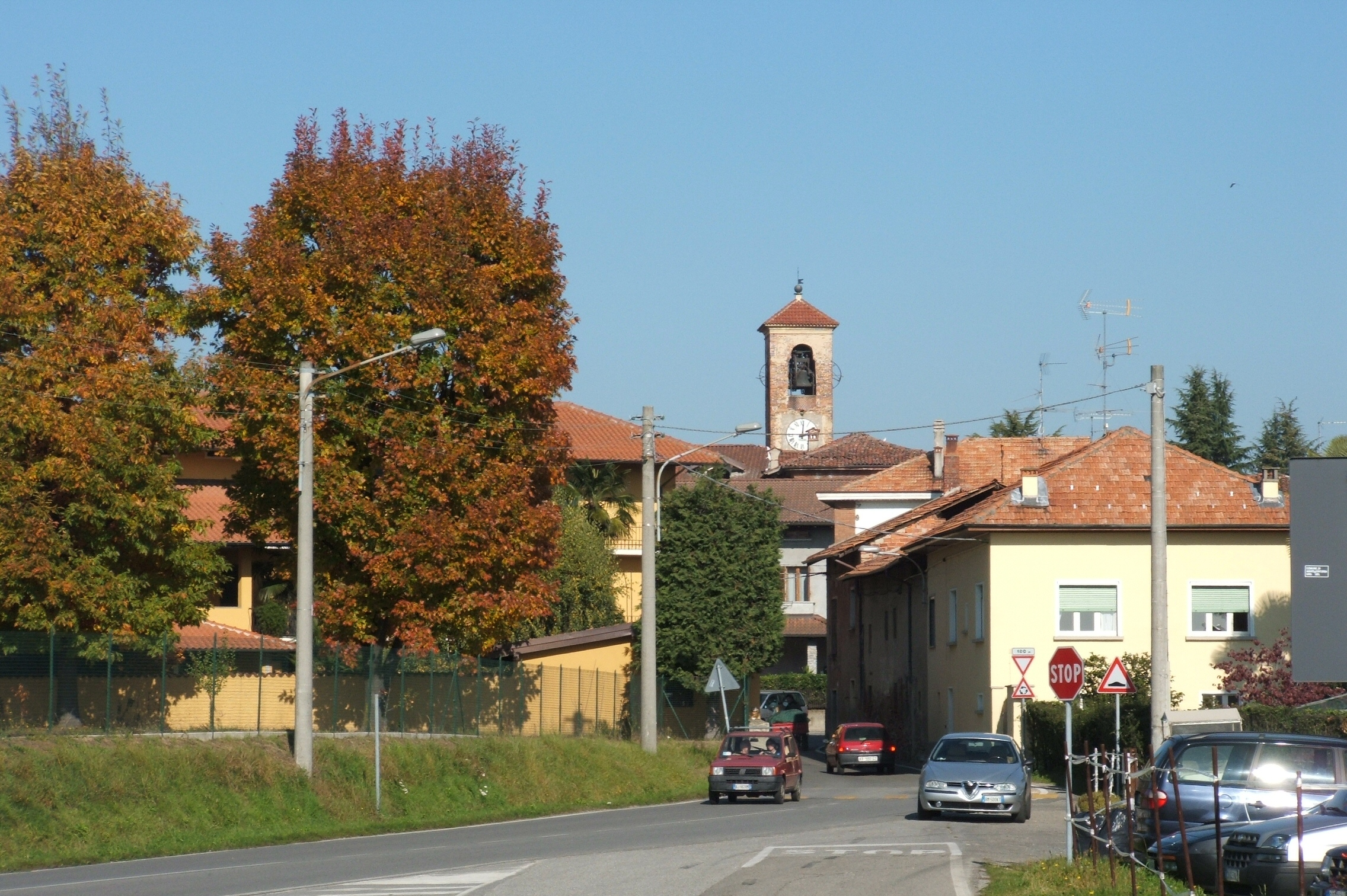 Agrate Conturbia, Novara, Piedmont, Italy - View of Agrate